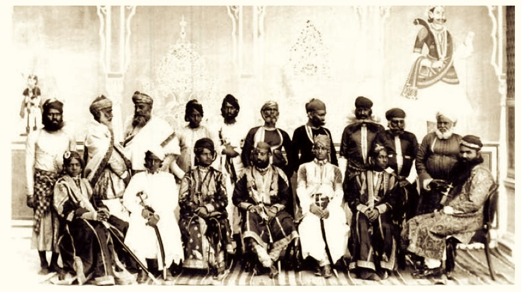 Noblemen from Jaipur 1875. Image shows group of Rajputs from Jaipur.